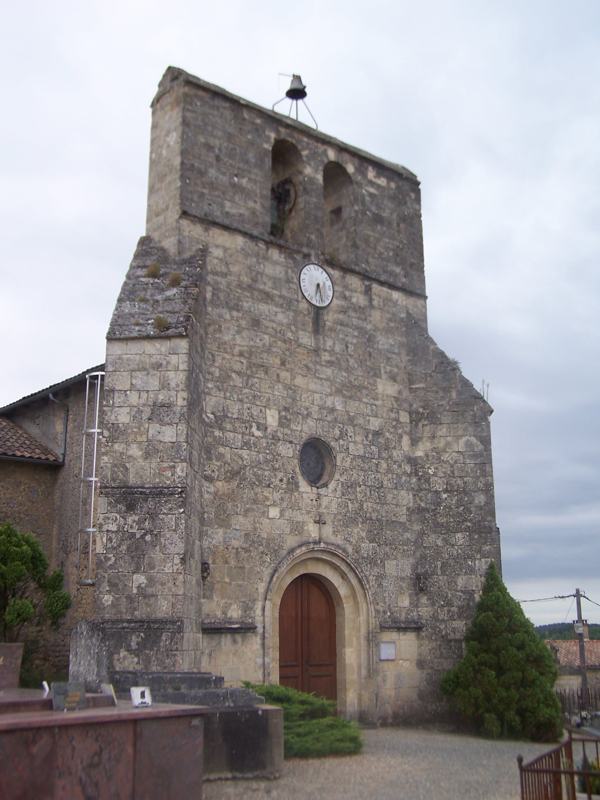 Saint Genès church of Soulignac (Gironde, France)